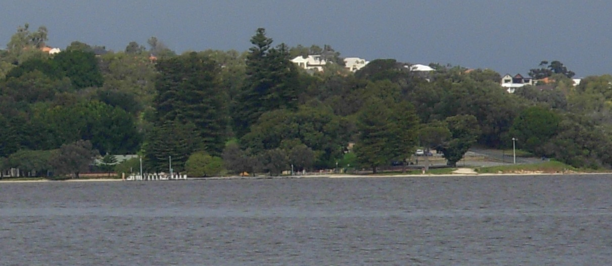 Point Walter from the north - taken from Freshwater Bay, Claremont